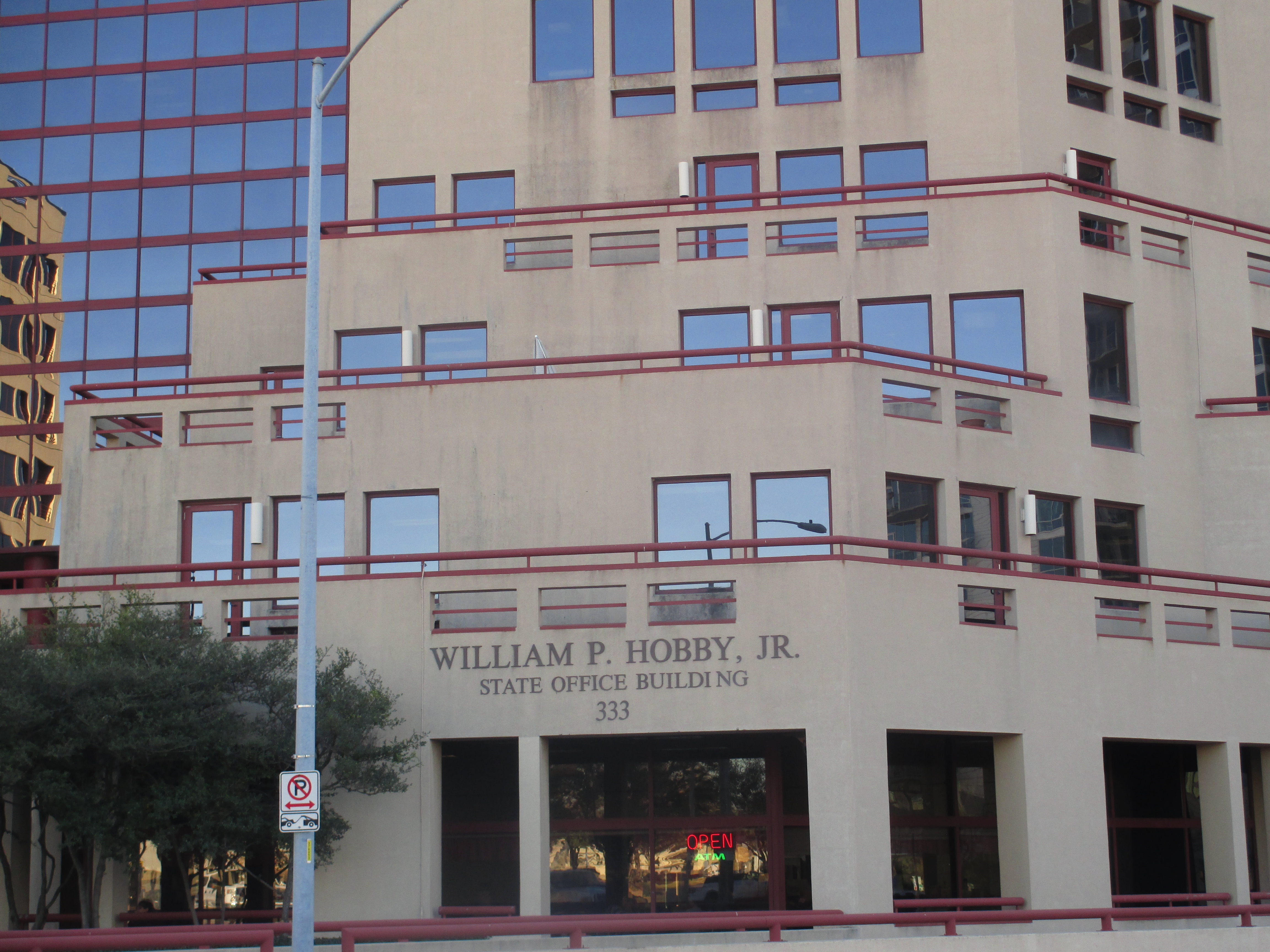 Canon camera William P. Hobby Office Building in Austin, TX 1-18-2013